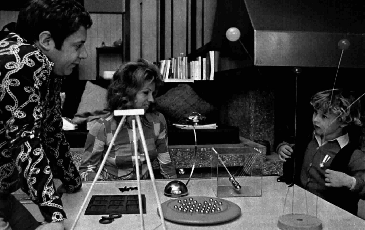 Italian actor Paolo Villaggio with his wife and his son in their house in Rome